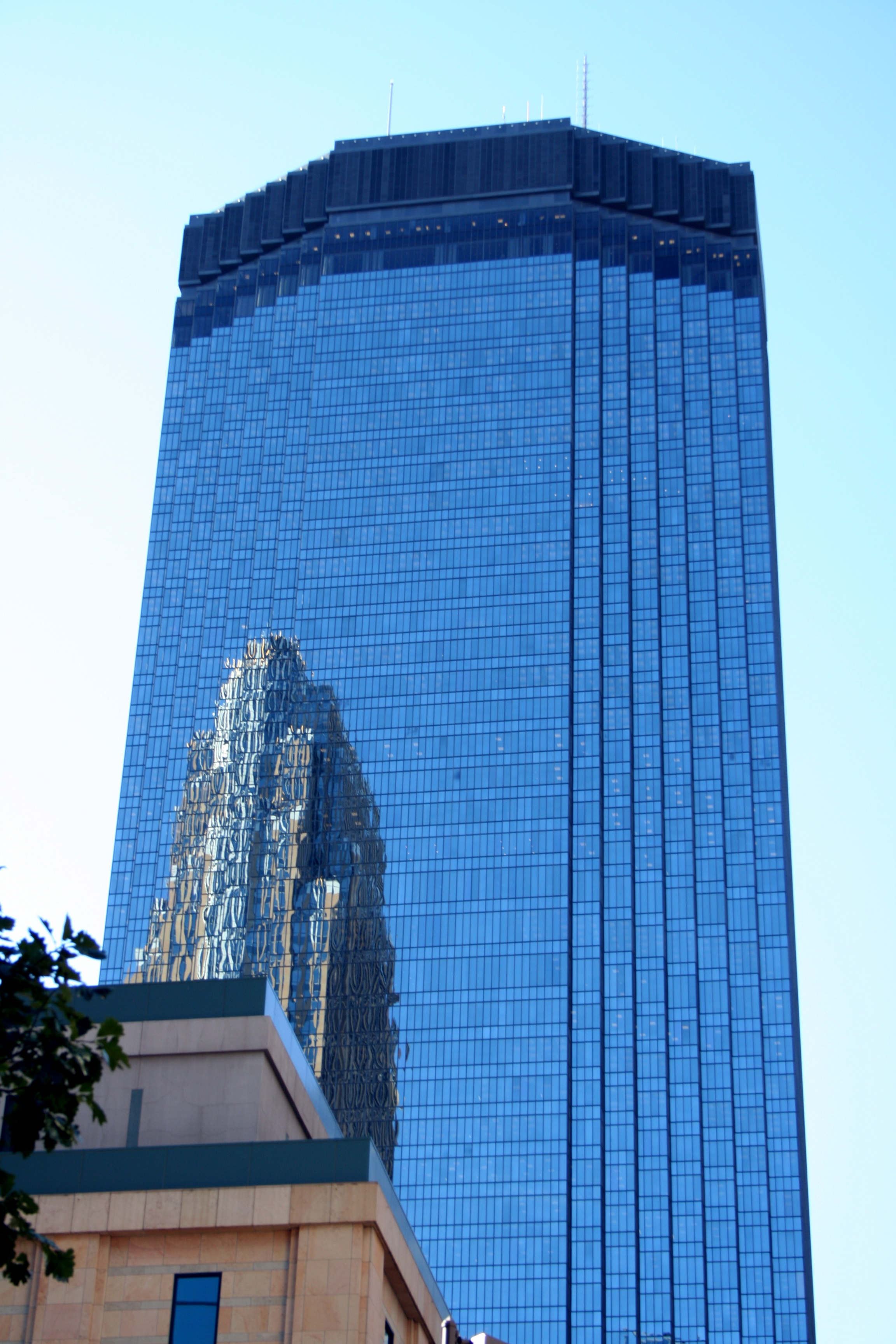 IDS Center reflecting Wells Fargo, Minneapolis, Minnesota